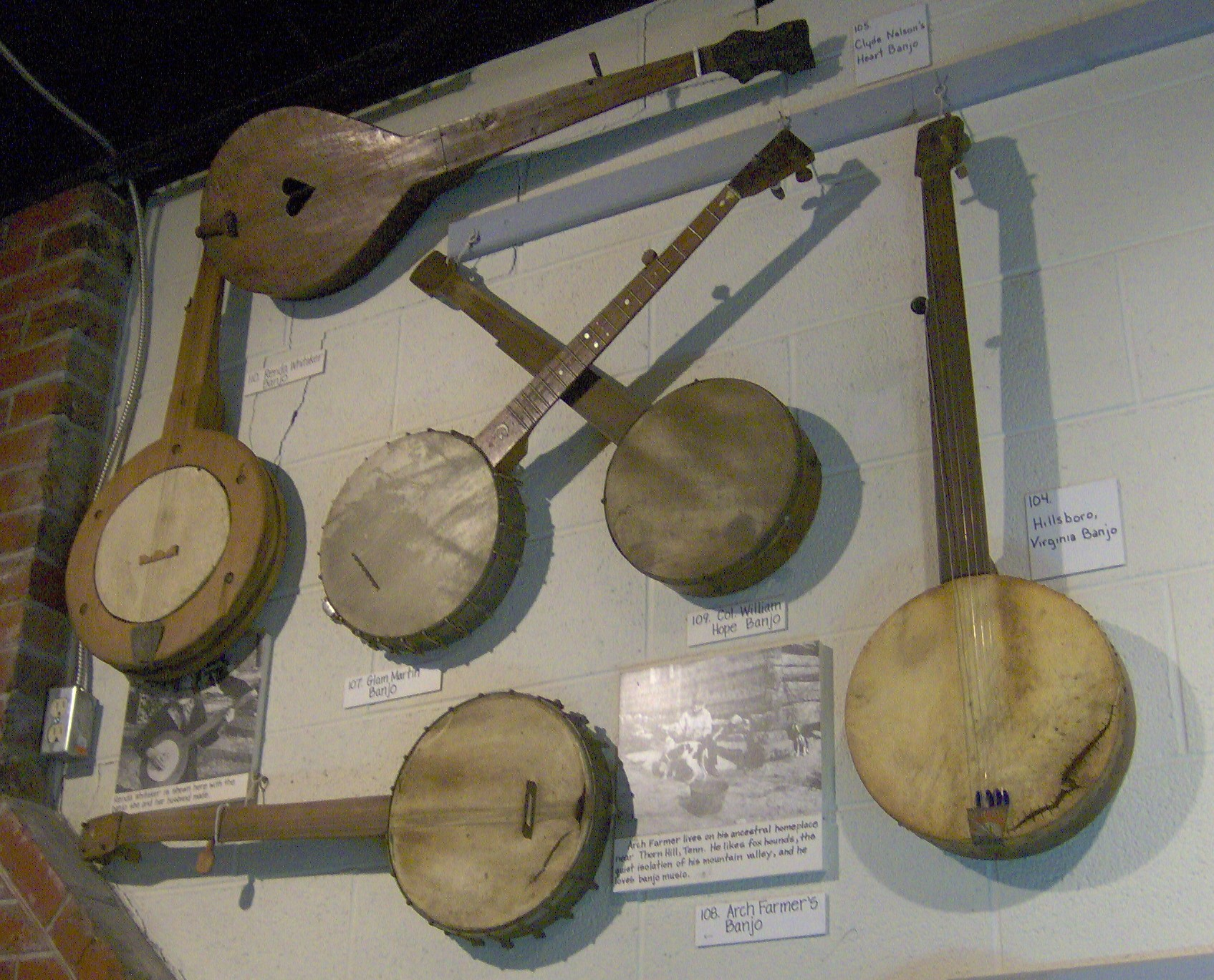 Display of banjos from around the Appalachian region at the Museum of Appalachia in Norris, Tennessee, USA. This display is in the "Appalachian Hall of Fame" building near the museum entrance.